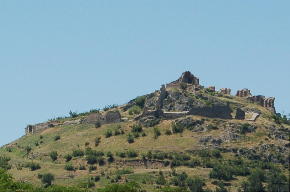 Castle of Gynaekocastron (Oria)